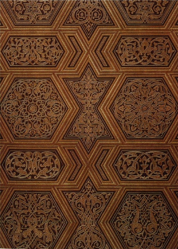 Lithograph of a wood carving on the minbar at the mosque in Qus, Egypt, colouring enhanced